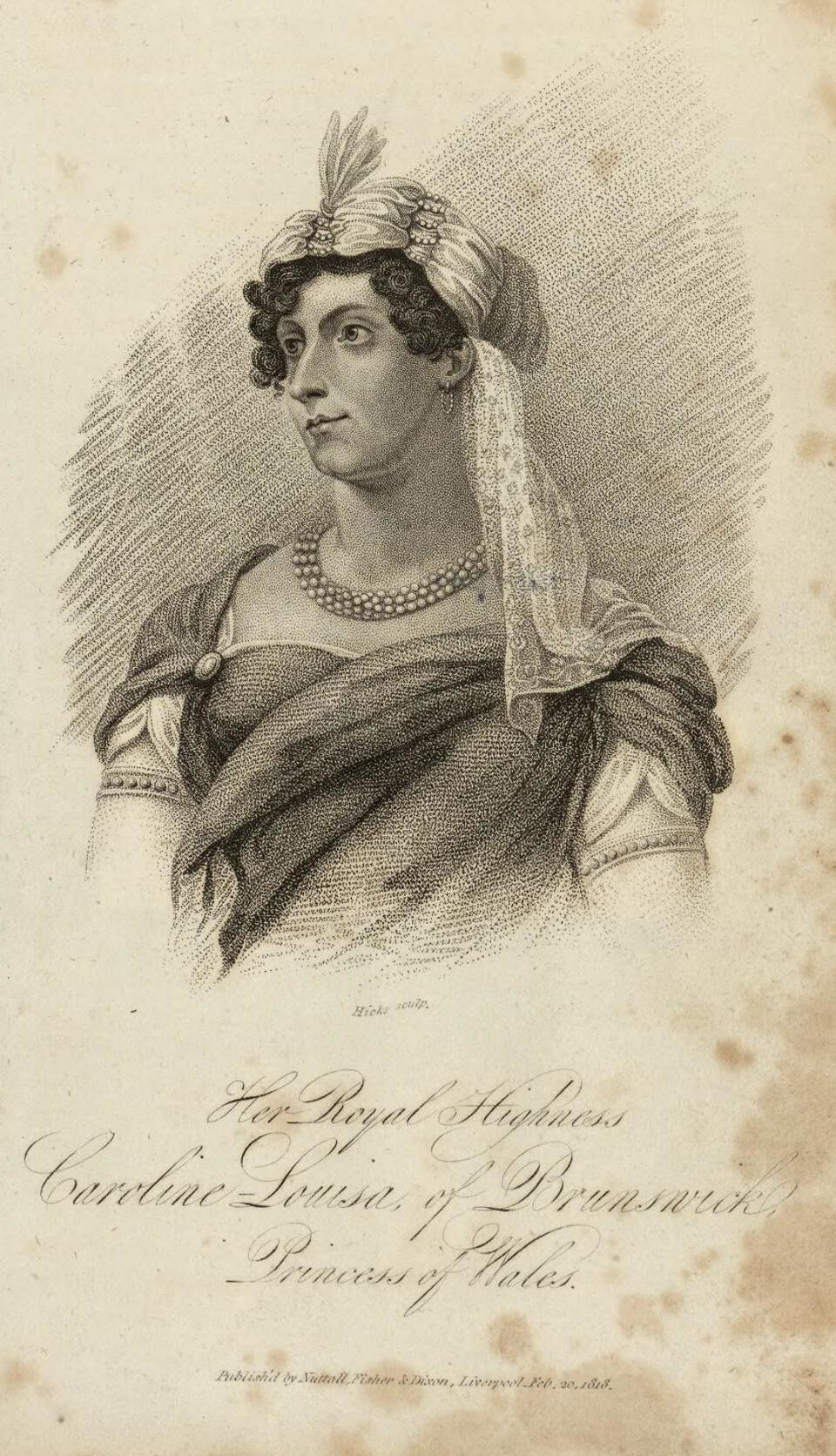 A portrait from the Welsh Portrait Collection at the National Library of Wales. Depicted person: Caroline of Brunswick – Queen consort of King George IV of the United Kingdom